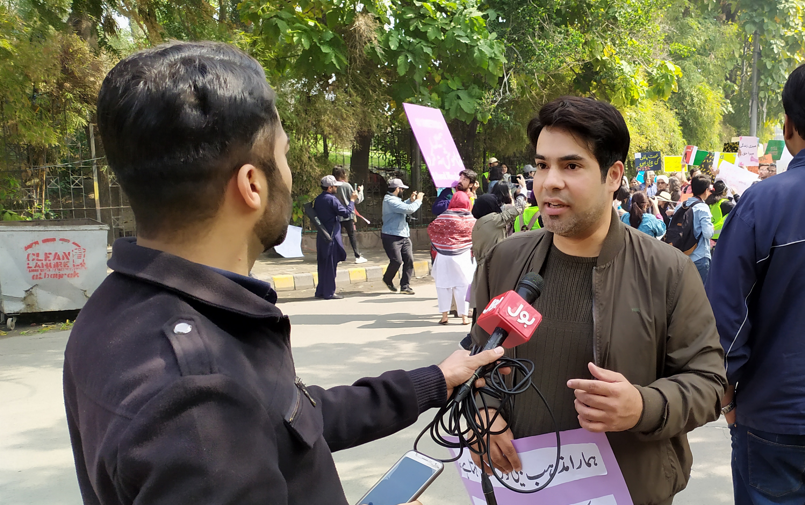 Farhan Wilayat (Philanthropist and Social Activist) during Aurat March 2020